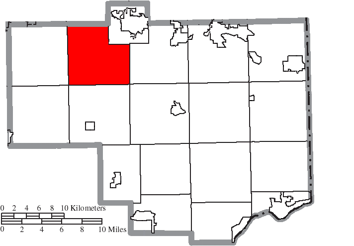 Map of the municipal and township boundaries of Columbiana County, Ohio, United States, as of the 2000 census, with the location of Butler Township highlighted. Township borders are shown only in unincorporated areas in order to differentiate incorporated and unincorporated areas more clearly.